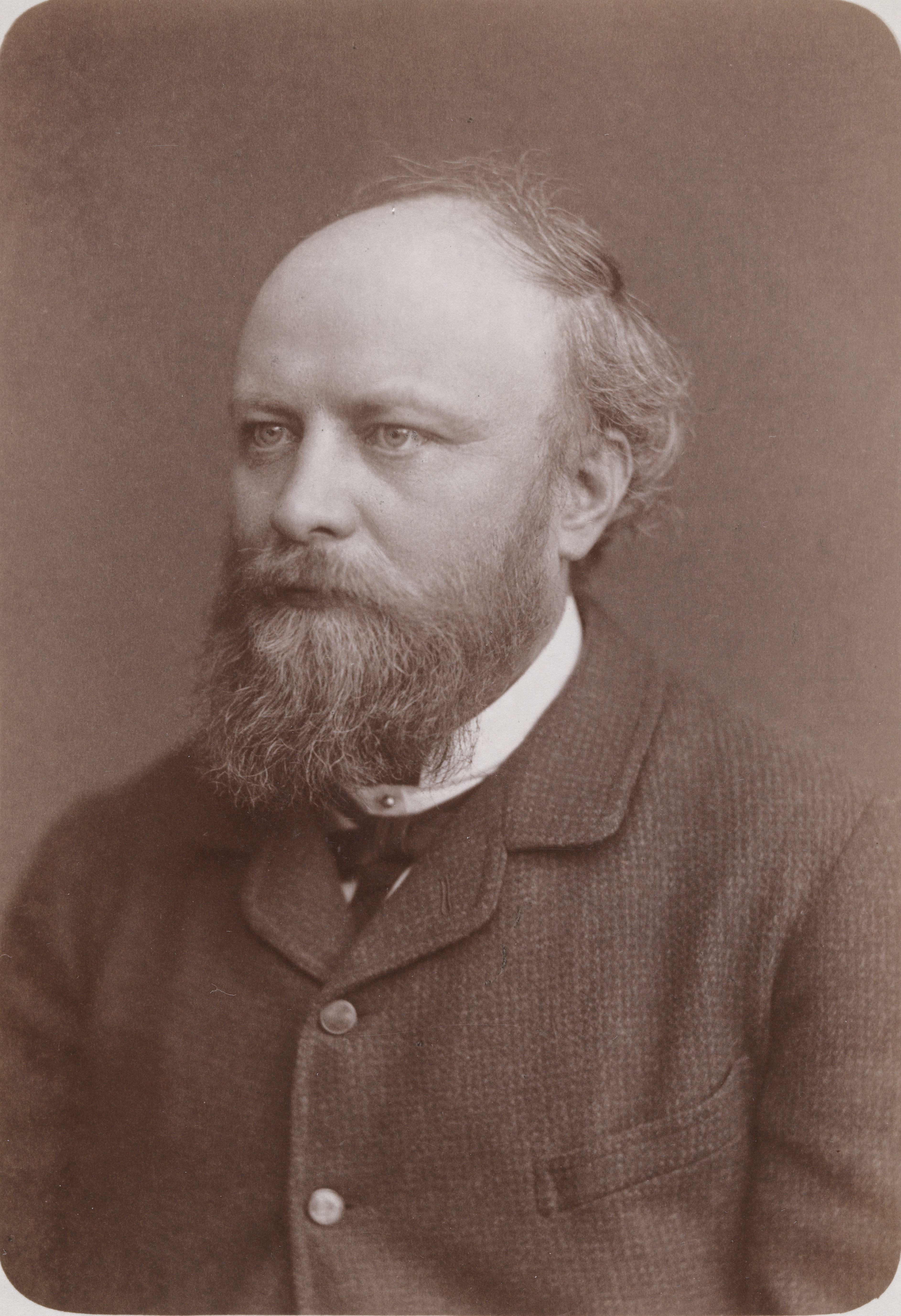 Theophil Tschudy, Architekt in Zürich, aus Mumpf (AG), 1867-1870. Architekturstudent an der ETH Zürich bei Gottfried Semper